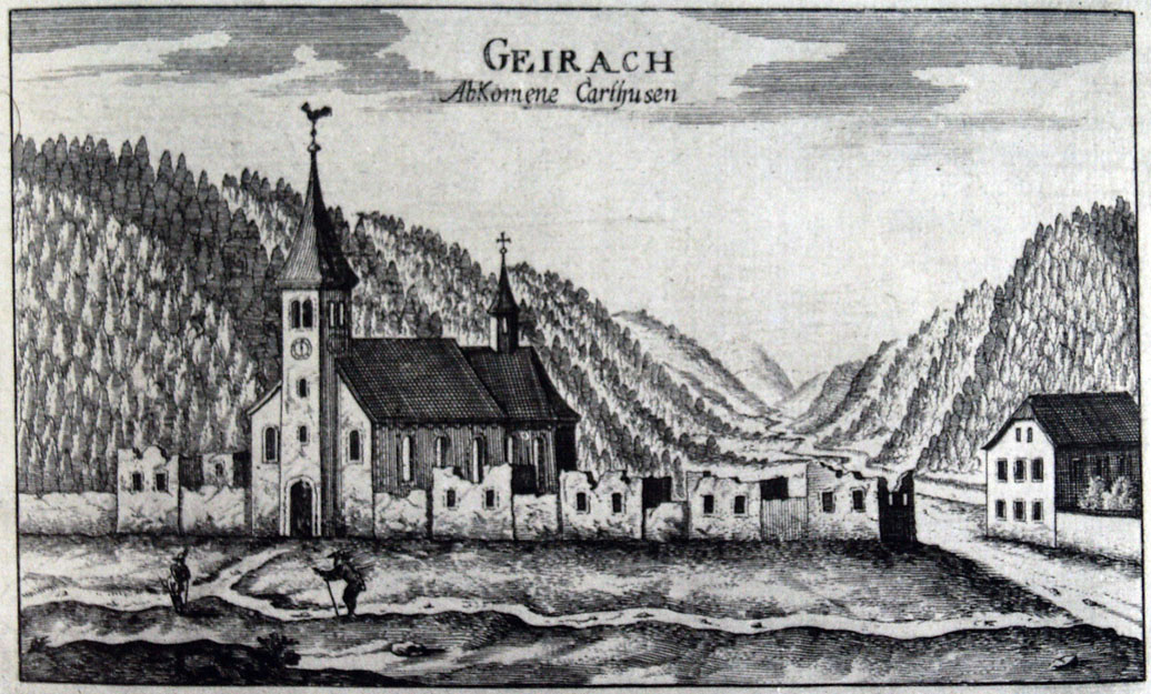 Jurklošter